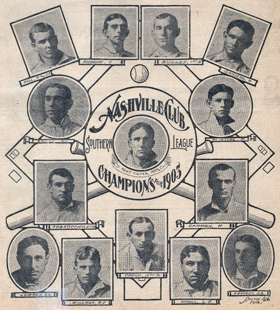 The 1902 Nashville Vols (known then as the Nashville Baseball Club), a minor league baseball team from Nashville, Tennessee